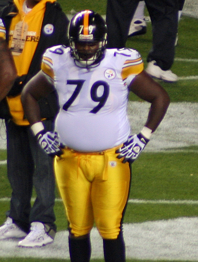 Trai Essex, a player on the Pittsburgh Steelers American football team.